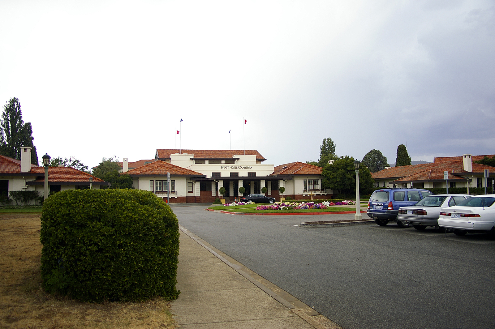 Hotel Canberra located in the Canberra suburb of Yarralumla, Australian Capital Territory, Australia.